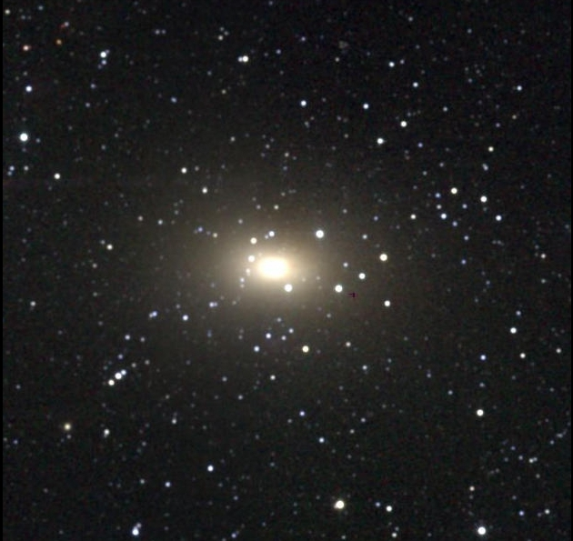 Maffei 1 (UGCA 34) elliptical galaxy